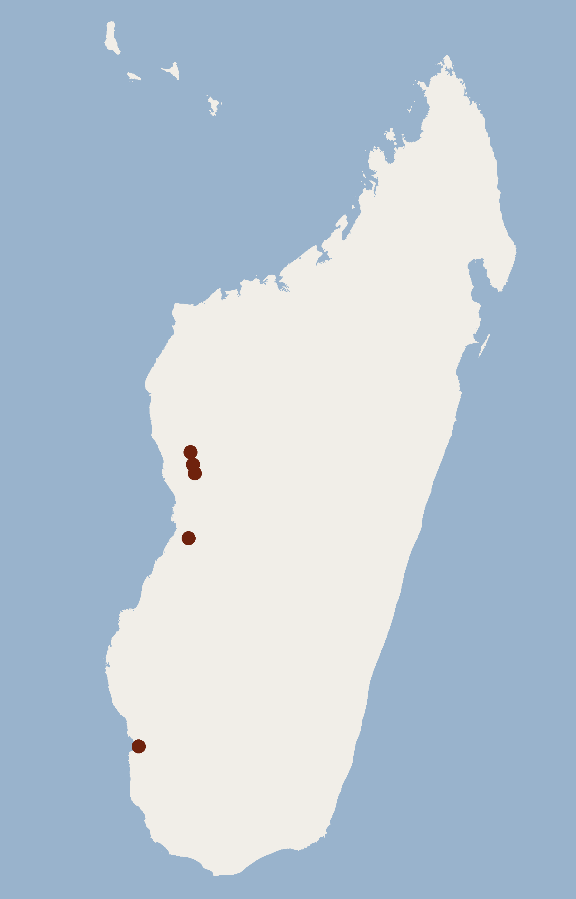 Geographical distribution of Scotophilus tandrefana according to Museum specimens